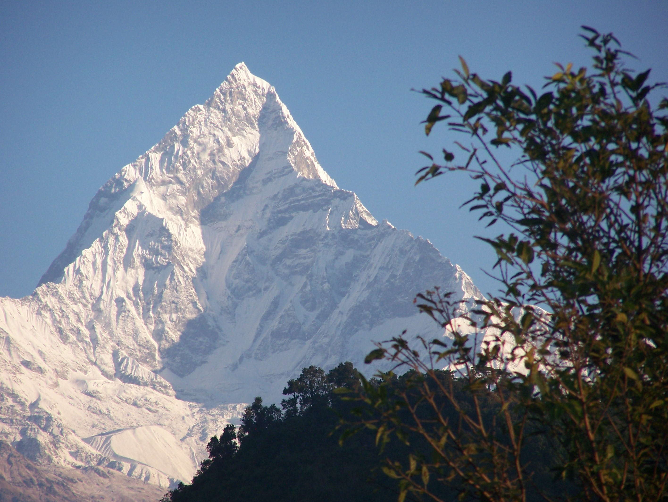 Mount Machapuchare in Nepal, taken during a trip.